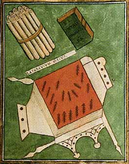 Page from the Notitia Dignitatum, displaying the insignia and items associated with the office of primicerius notariorum, a late Roman palace chancery official.